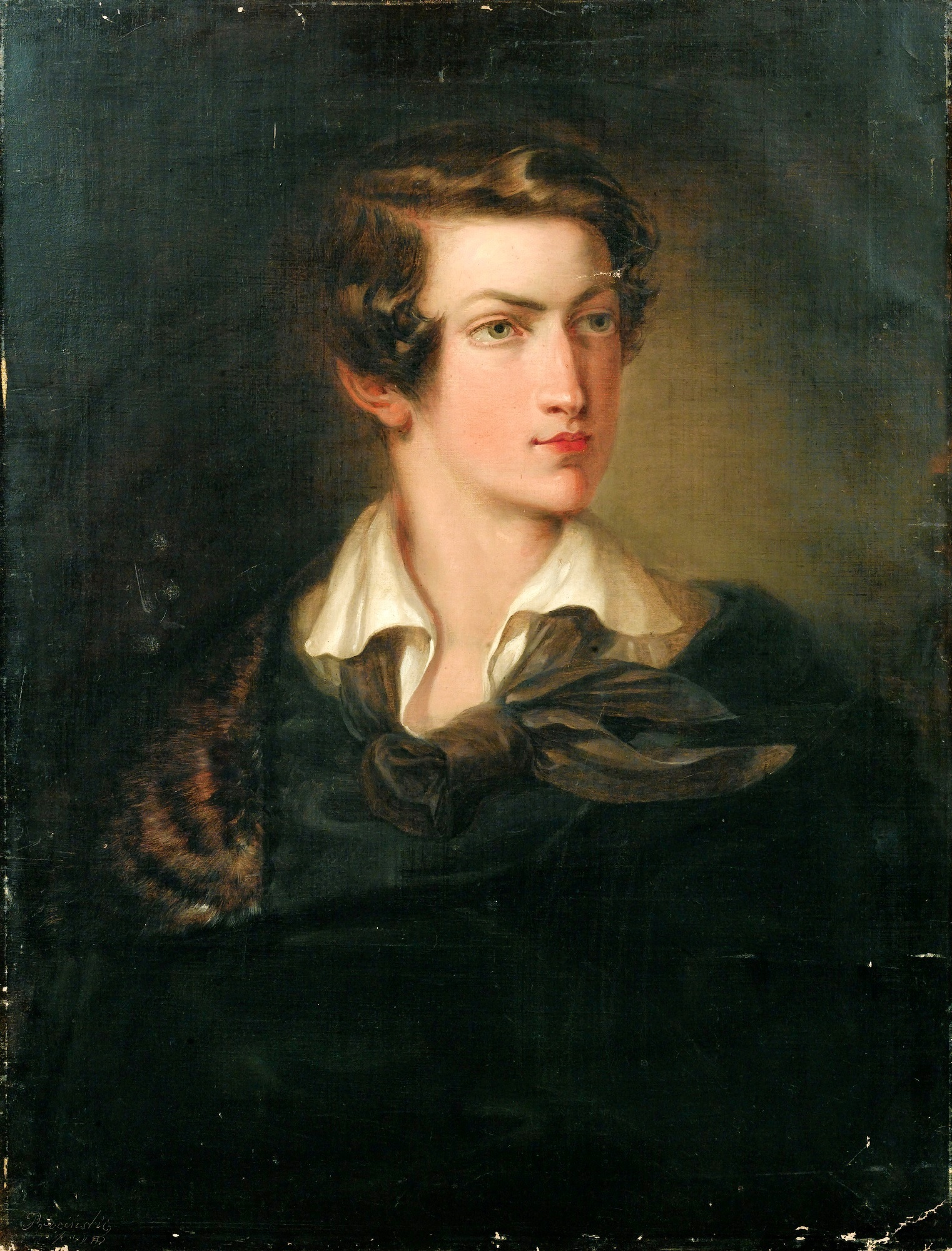 Portrait of the Count Alfred Potocki